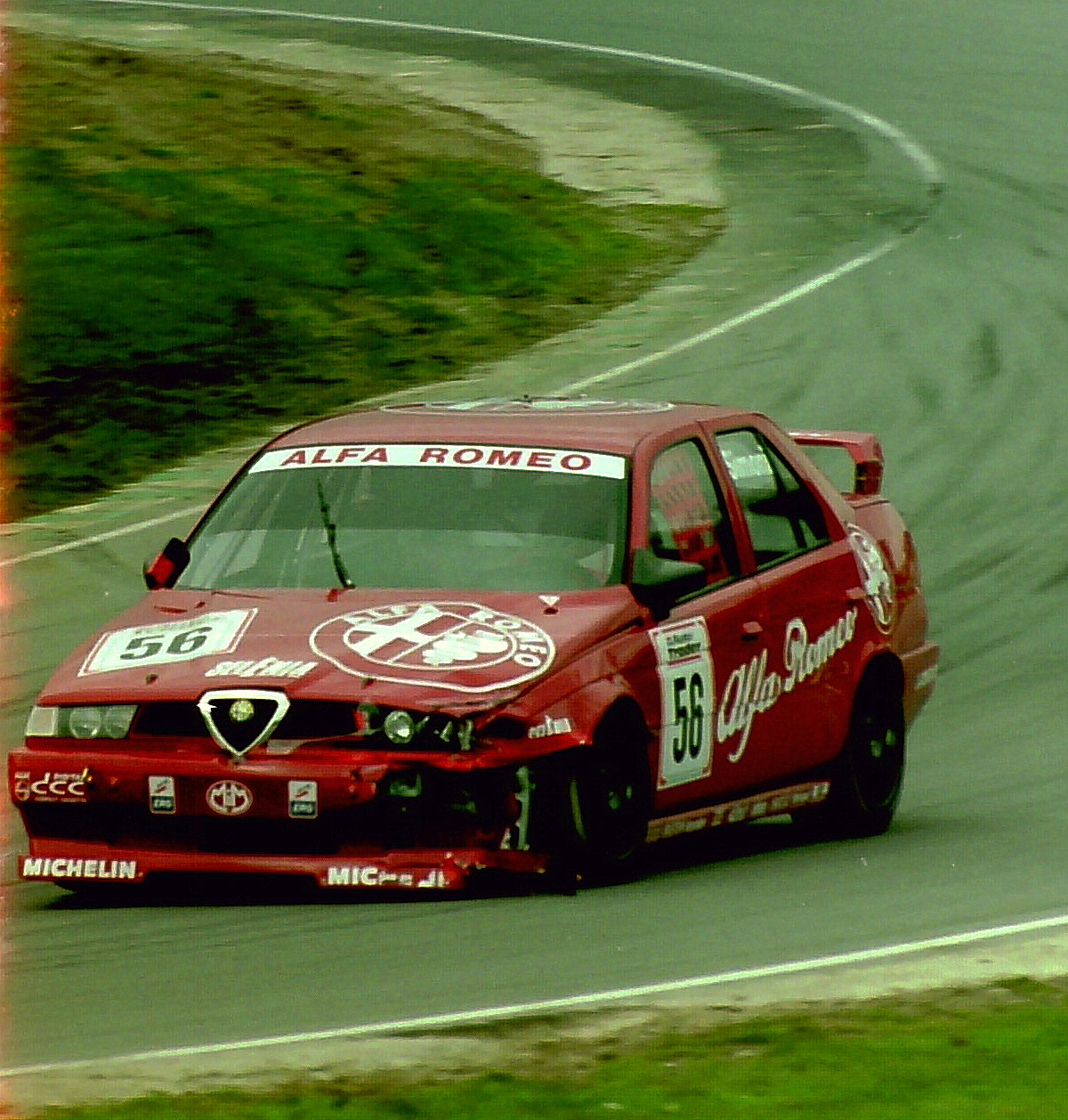 Fornt end damage to Giampiero Simoni - Alfa Romeo 155T at the BTCC races Brands Hatch, April 17 1994